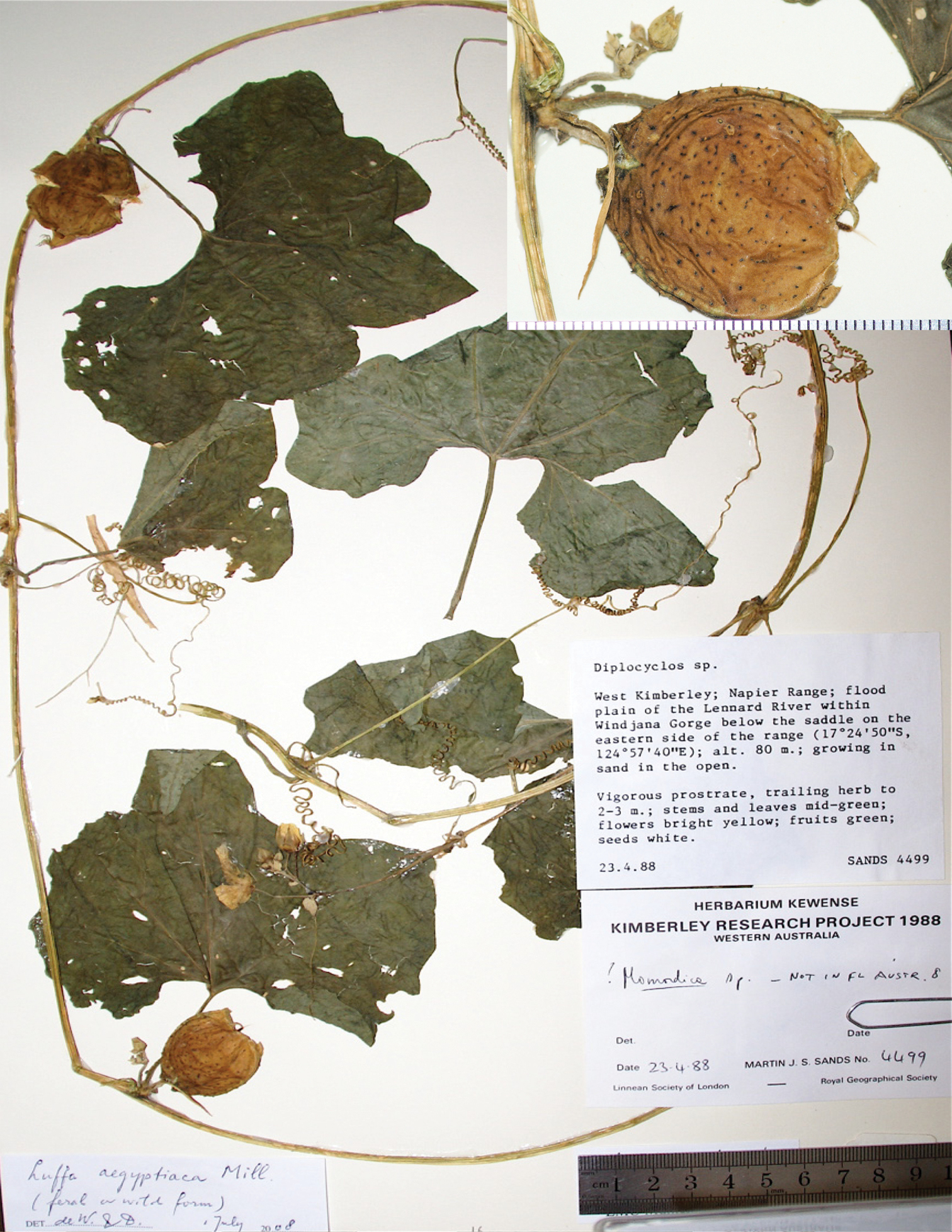 Typical herbarium specimens of Luffa saccata: Sands 4499 (L).